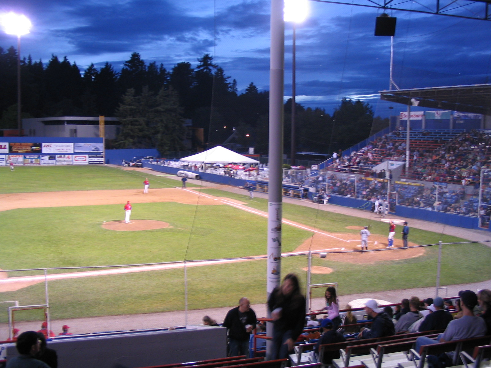 I created this and there is nothing you can do about it. 11:55, 15 November 2006 . . Gateman1997 . . 1600×1200 (521,120 bytes)